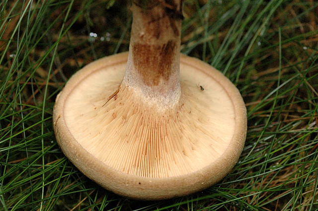 Paxillus involutus from Commanster, Belgium. The determination of the species shown in this picture has been verified.